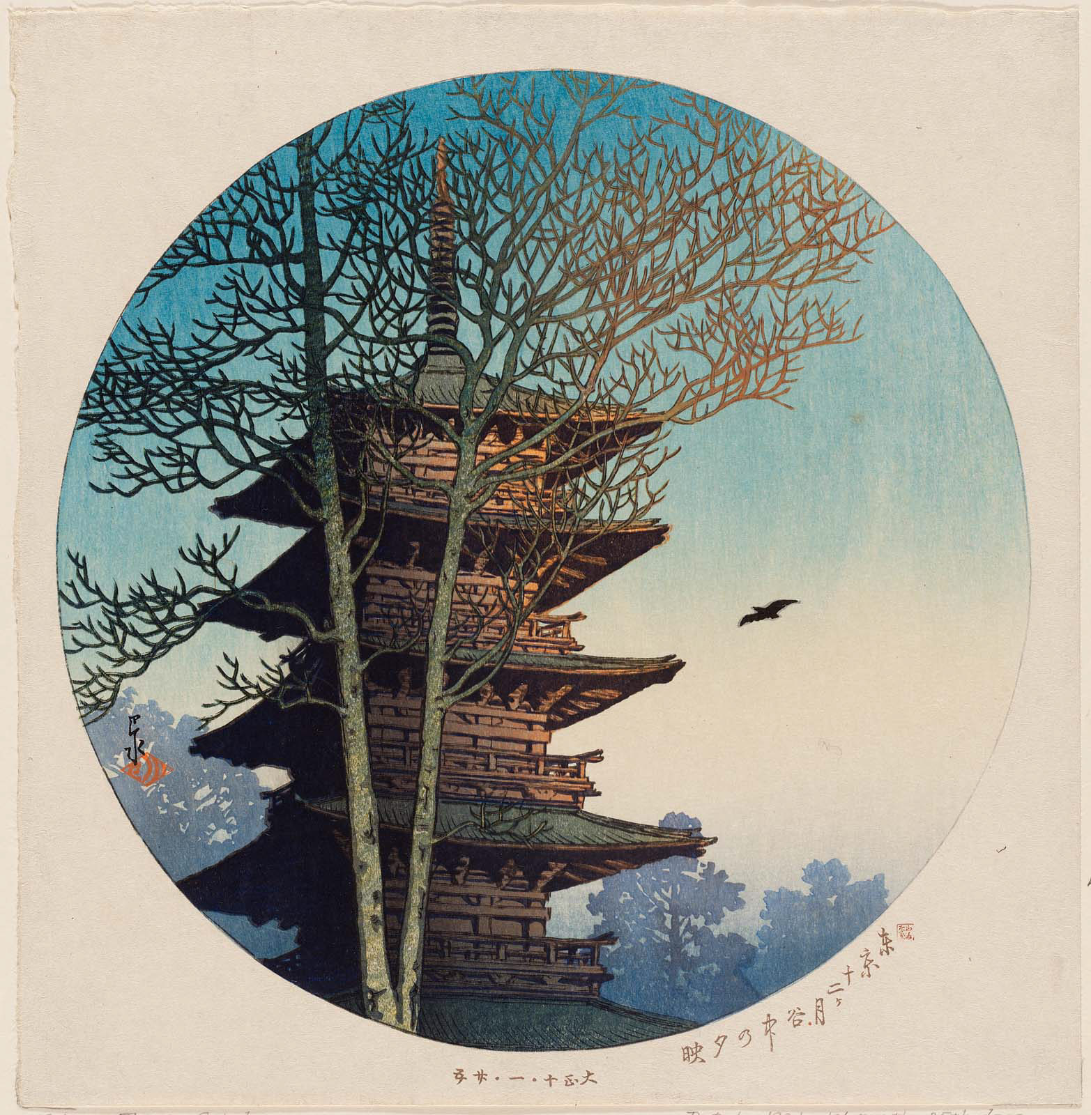 Evening Glow at Yanaka (Yanaka no yūbae), from the series Twelve Months in Tōkyō (Tôkyô jūnikagetsu)